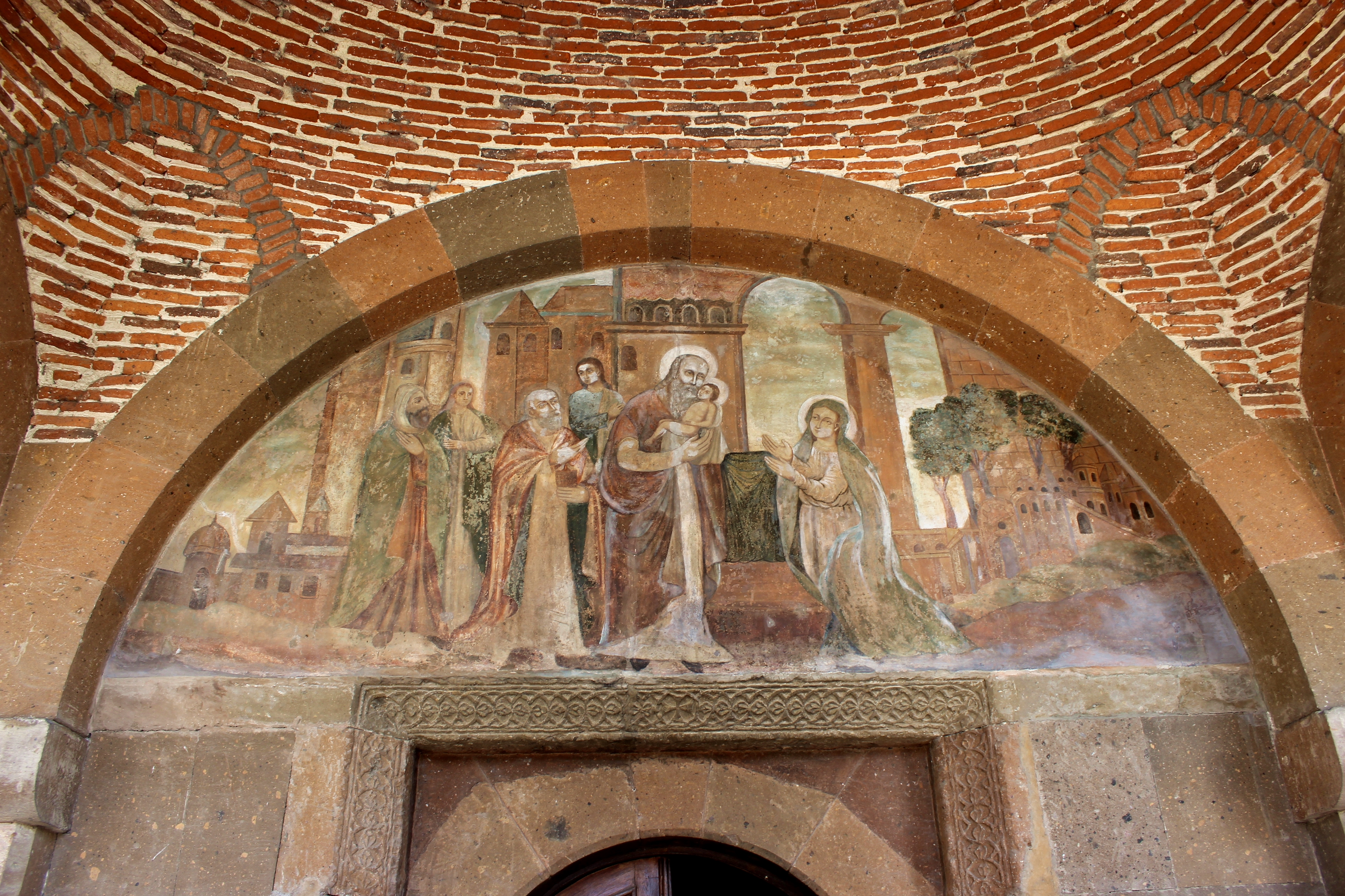 Fresco depicting saints on the tympanum above the door to Saint Gayane Church, Vagharshapat (Etchmiadzin), Armavir Province, Armenia